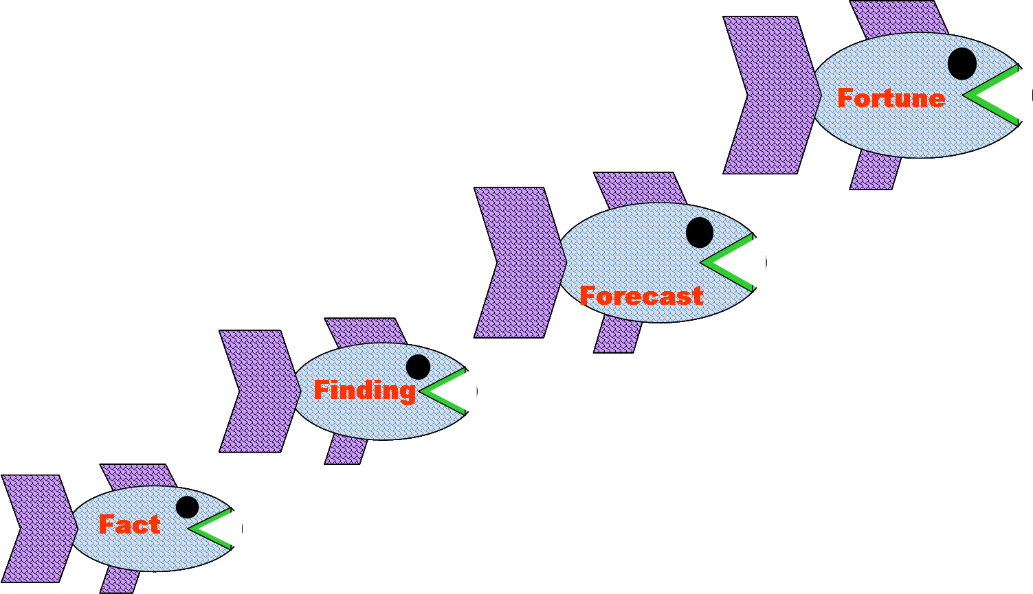 Symbolic food chain for intelligence estimates